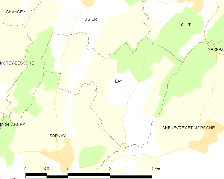 Map of French municipality